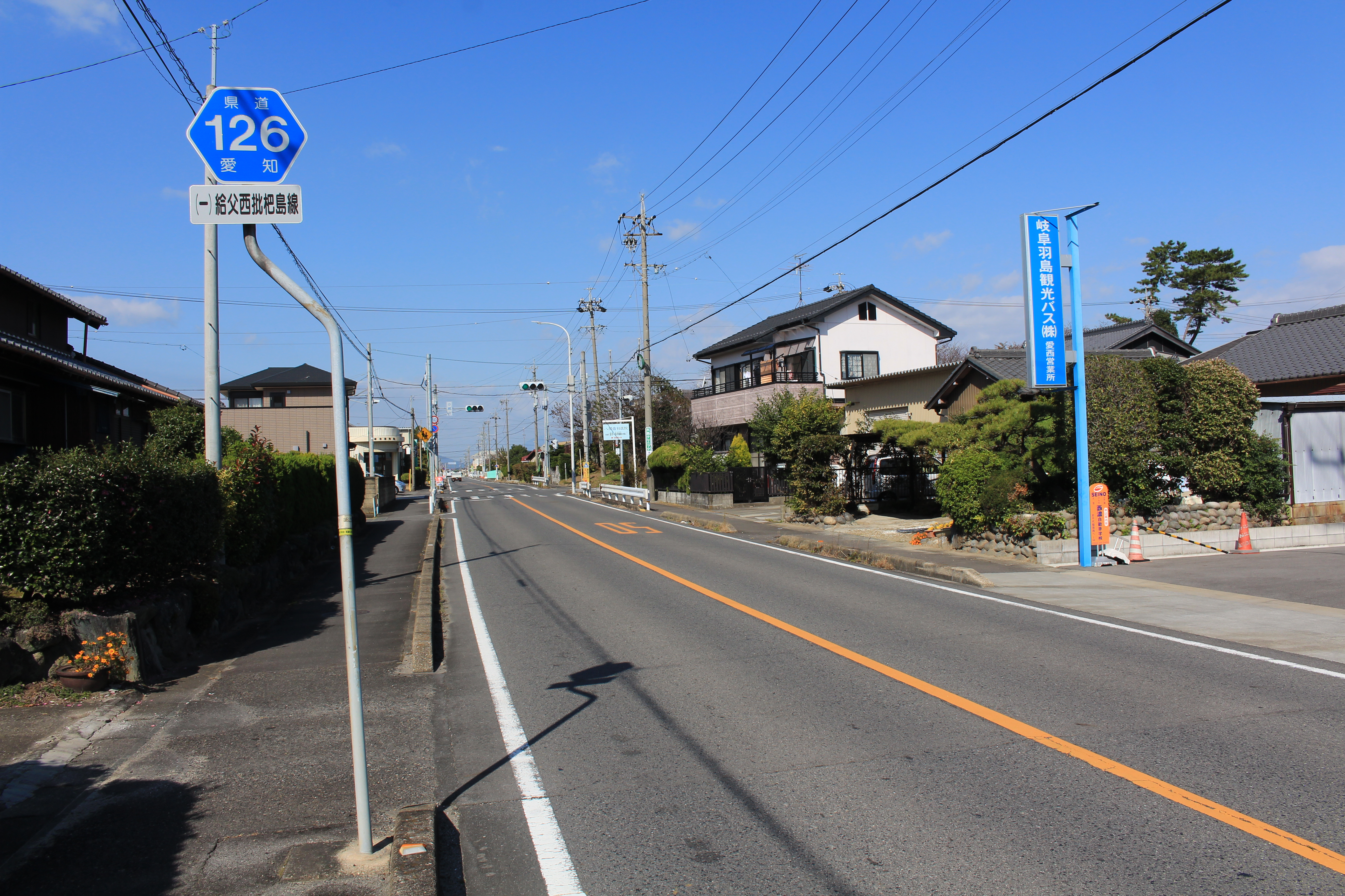 Aichi Prefectural Road Route 126 in Futagocho, Aisai, Aichi prefecture, Japan.